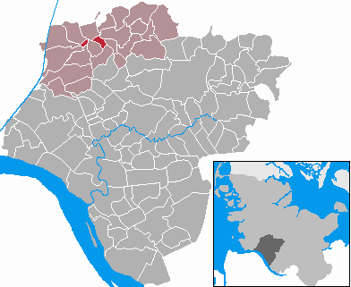 This map shows the area of the municipality Bokelrehm in the Kreis (district) Steinburg, Schleswig-Holstein, Germany.